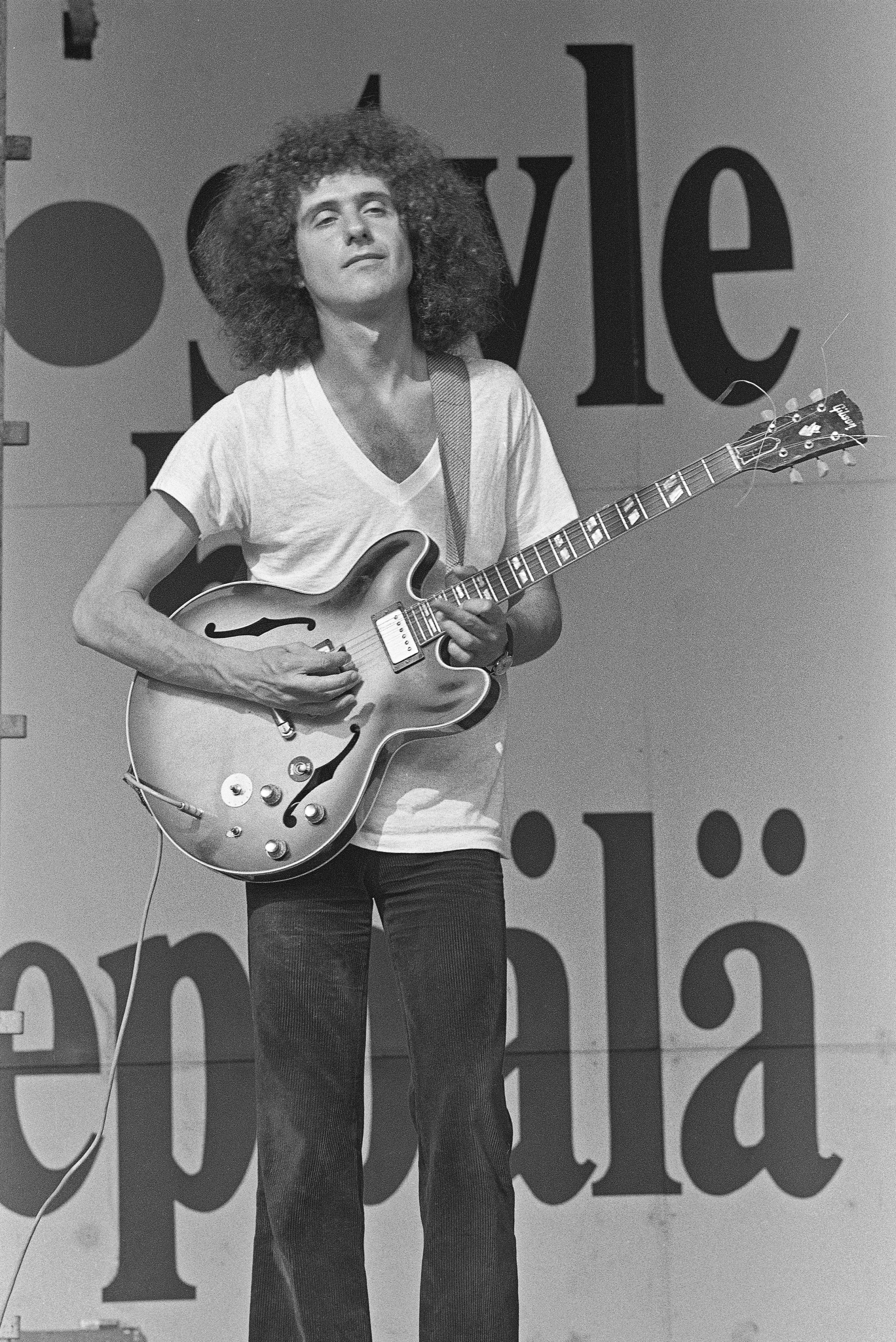 Photograph of the Swedish guitarrist Coste Apetrea (1952–), member of Jukka Tolonen Band, playing at Helsingin Kesäviikot.